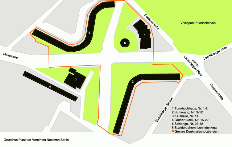 Platz der Vereinten Nationen Berlin